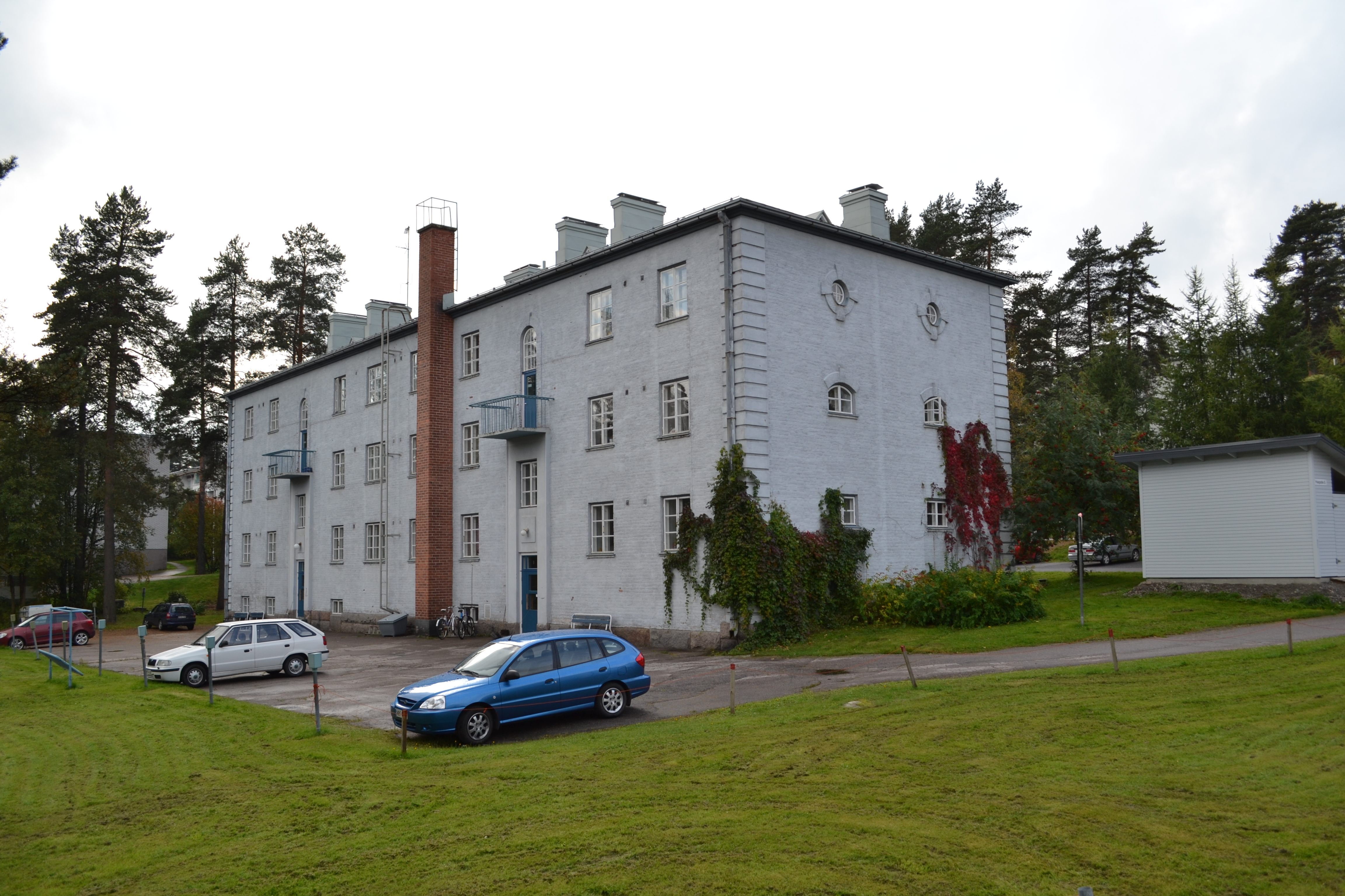 An apartment building built in 1925 on the street Haapatie in the district of Vaajakoski